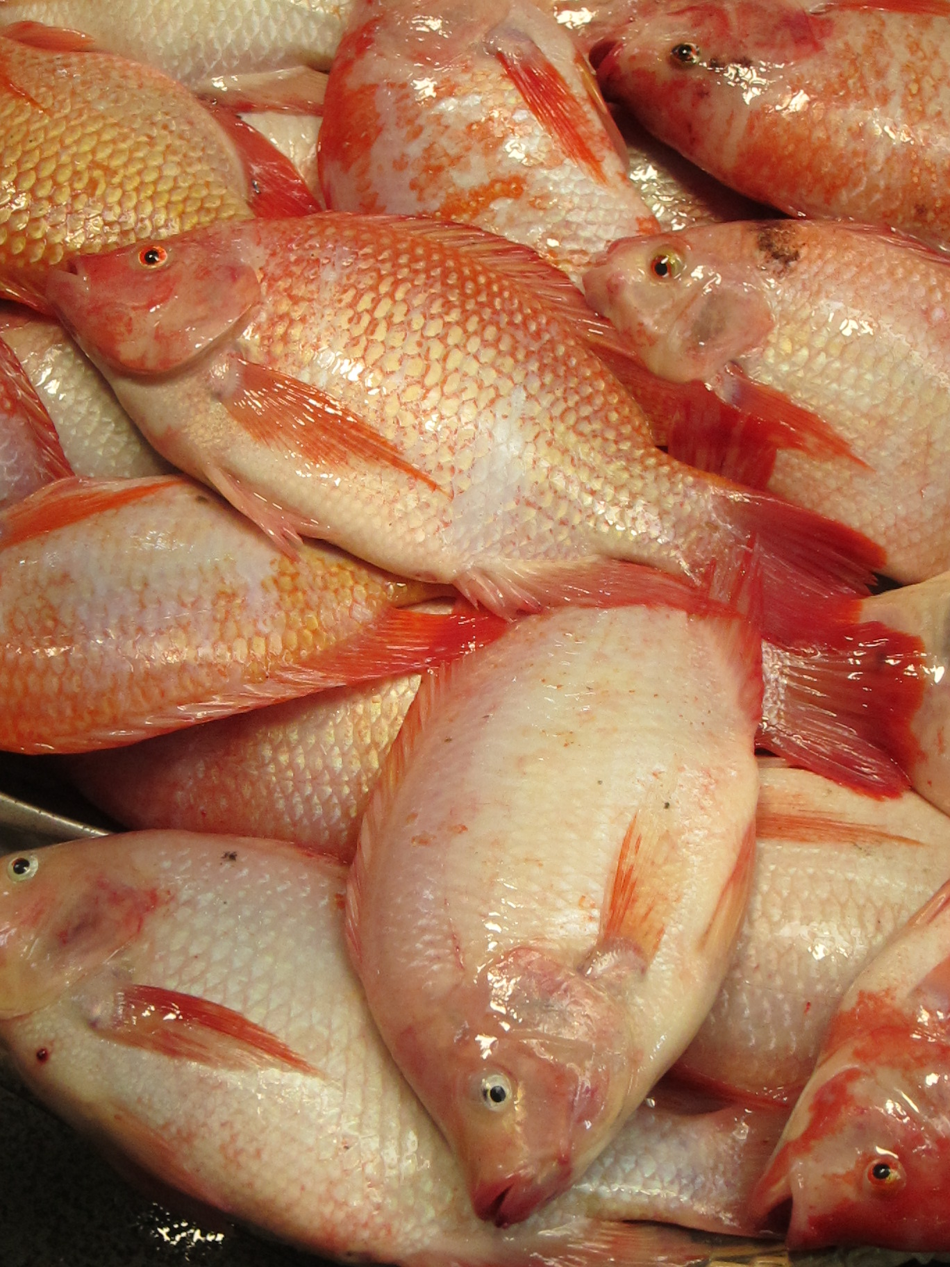 Pla Thapthim/Nile tilapia (Oreochromis niloticus) at the market in Kanchanaburi (Thailand)